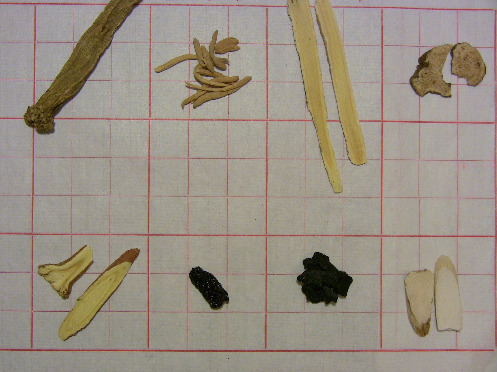 Pictures of herb samples from categories of Chinese Herbs Tonifying Herbs: Herbs that Tonify the Qi